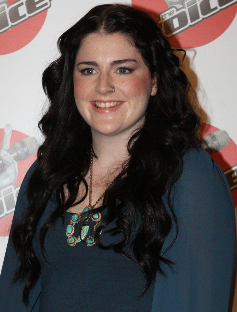 Karise Eden at The Voice (Australia) media conference in Hordern Pavilion, Moore Park in 2012.